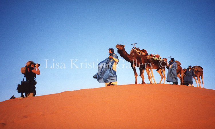 Lisa Kristine working in the Sahara in 2000.